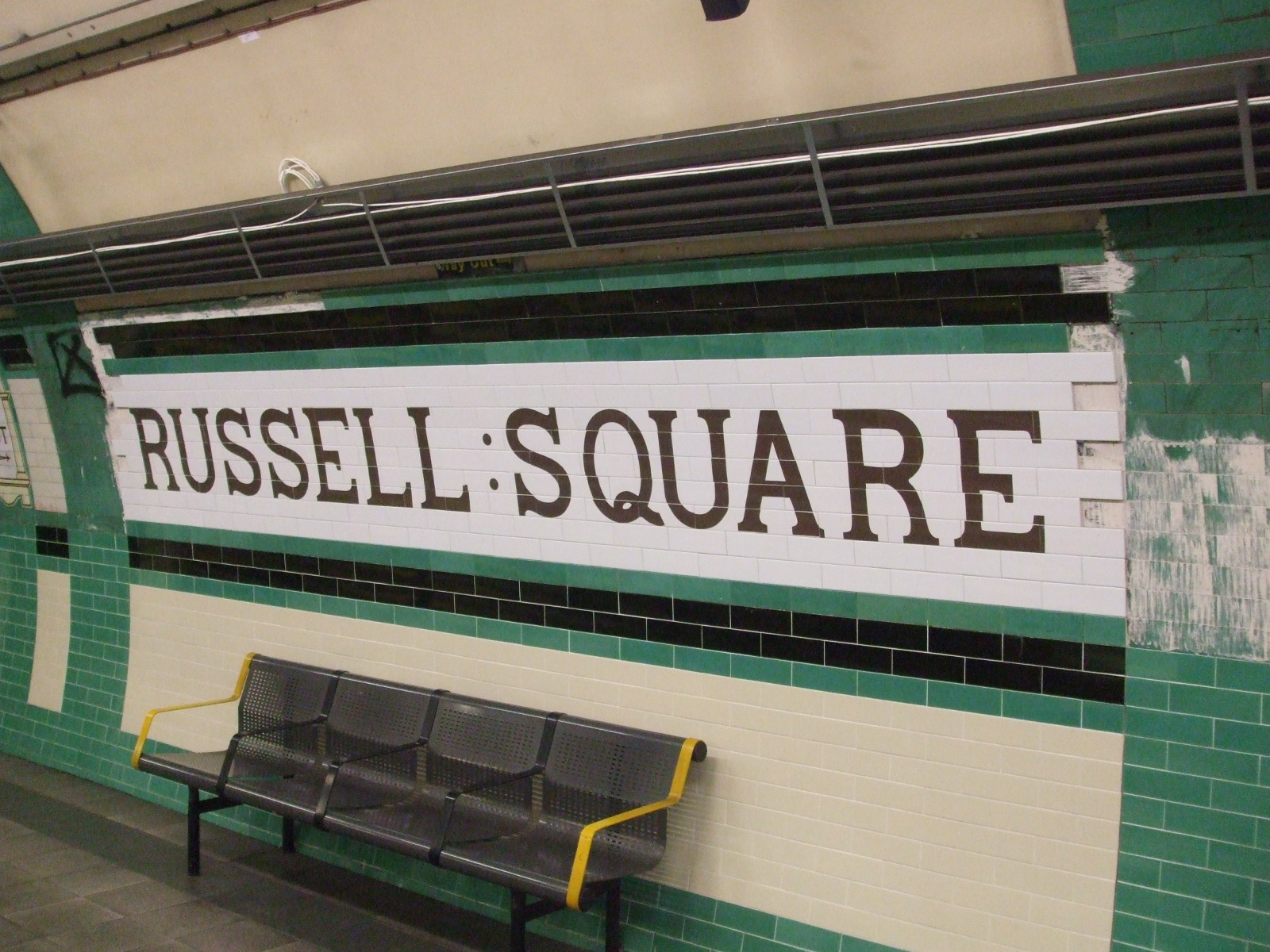 Russell Square tube station is undergoing refurbishment as of July 2008, but this is one of the sections of intact station name tiling on the westbound platform.